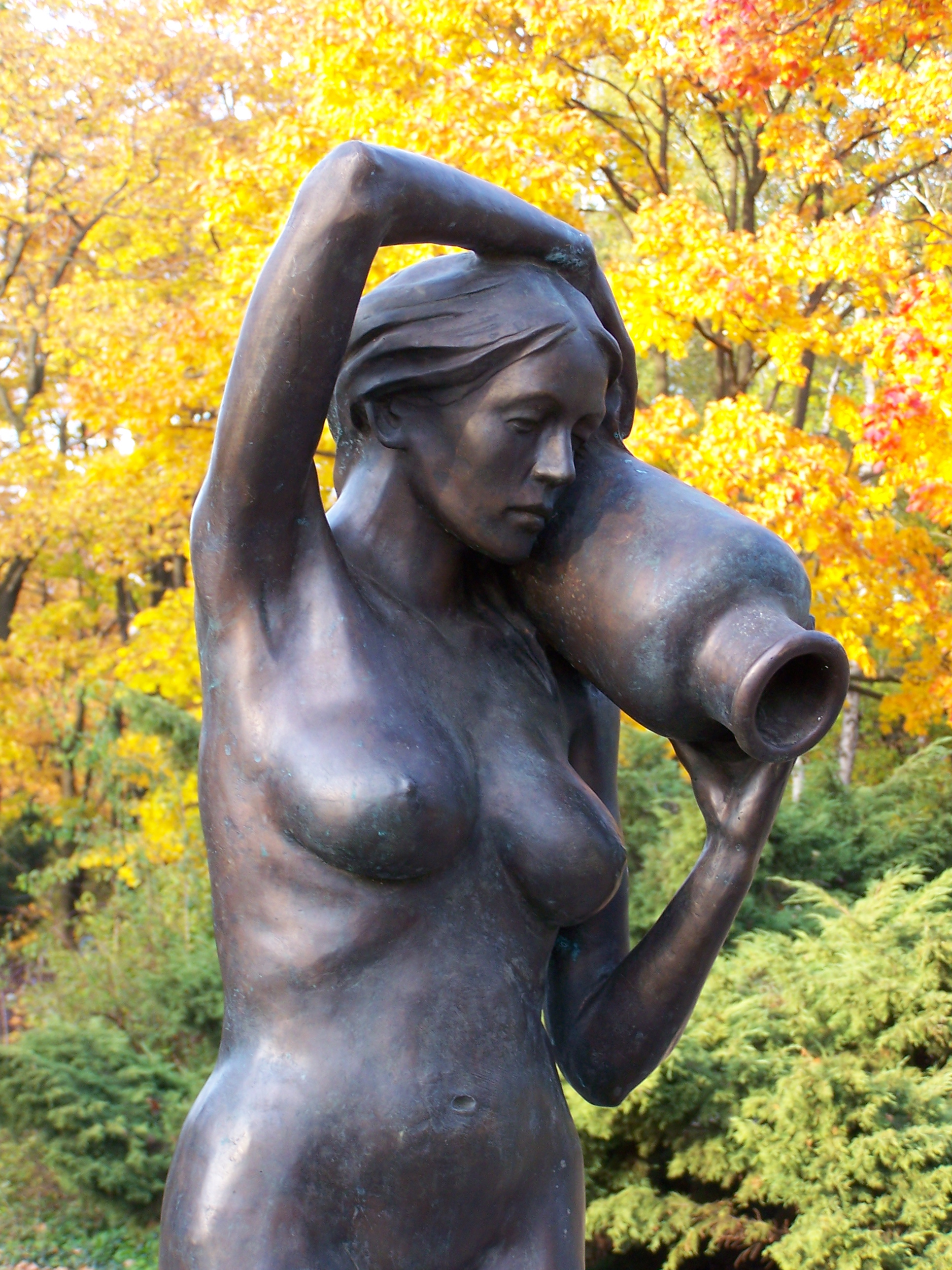 Statue in Silesian Central Park.